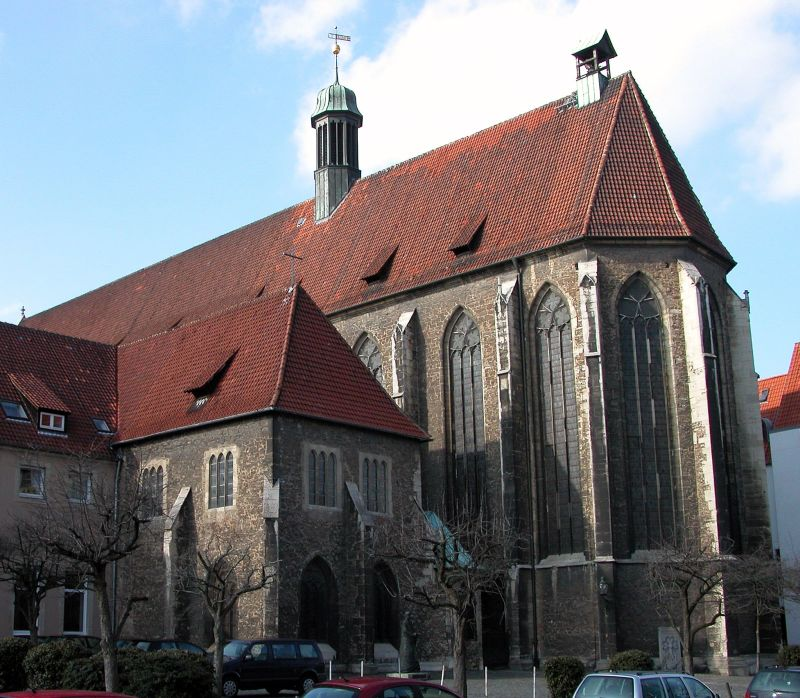 Brunswick, Germany: St. Ulrici’s as seen from the southeast.